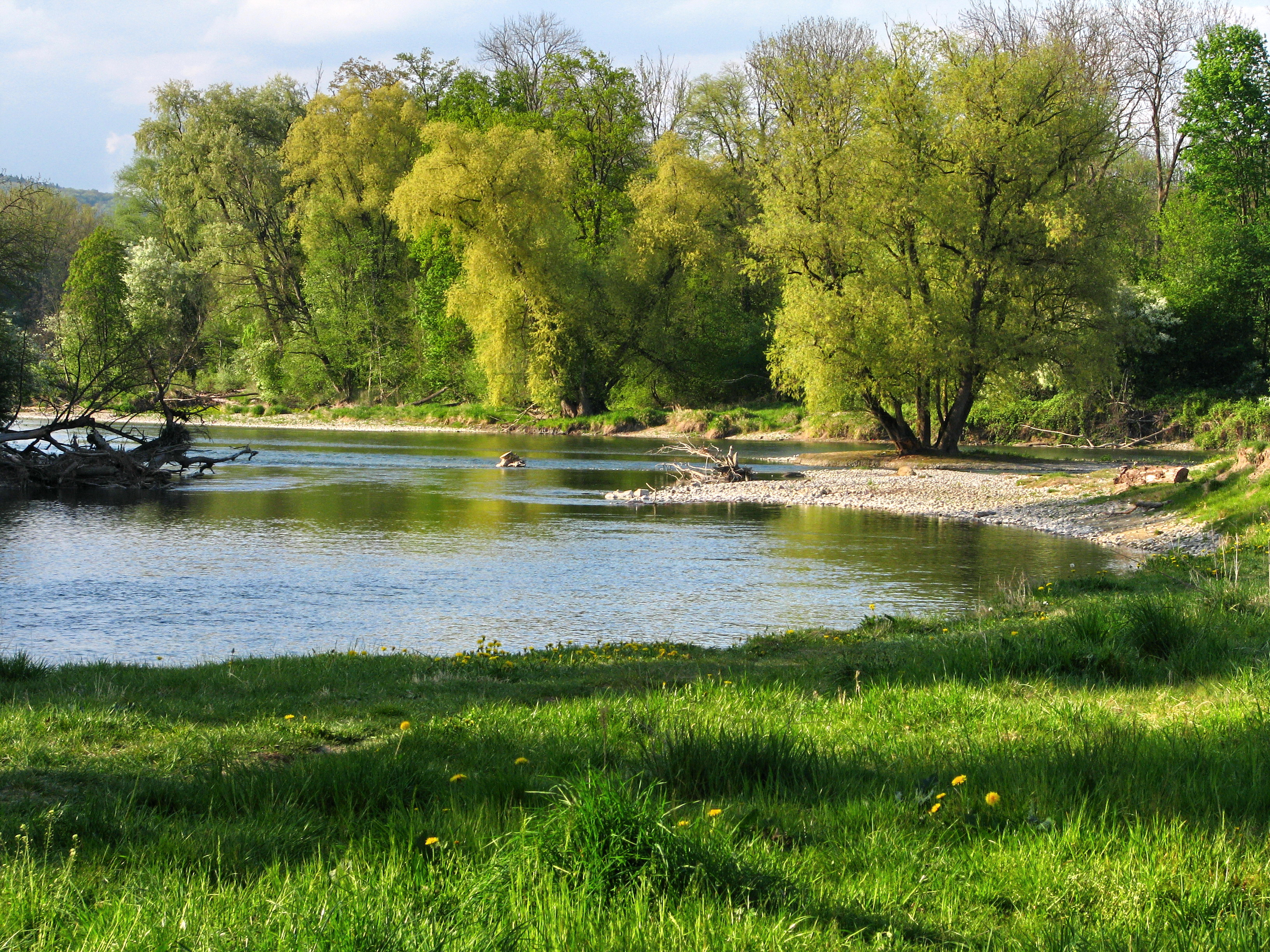 Limmatspitz protected area in Vogelsang (Gebenstorf): confluence of the rivers Aare and Limmat within the so-called Wasserschloss.